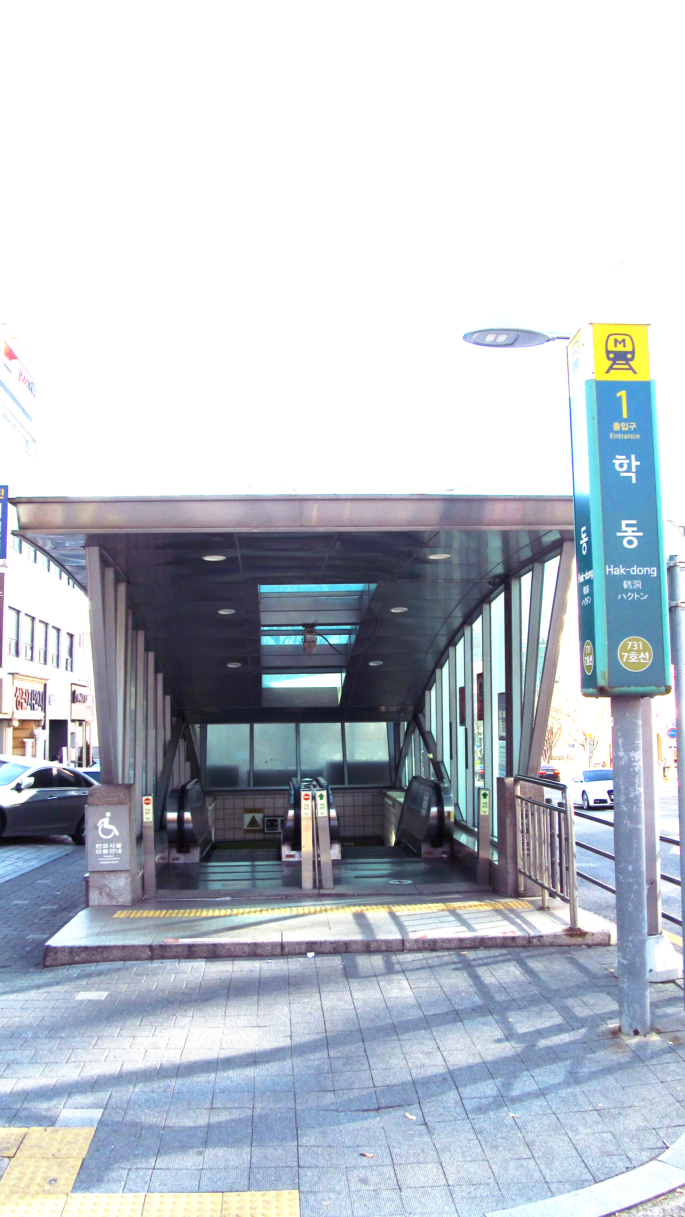 The no.1 entrance to Hak-dong Station on Seoul Subway Line 7 in Gangnam-gu, Seoul, Republic of Korea(South Korea)